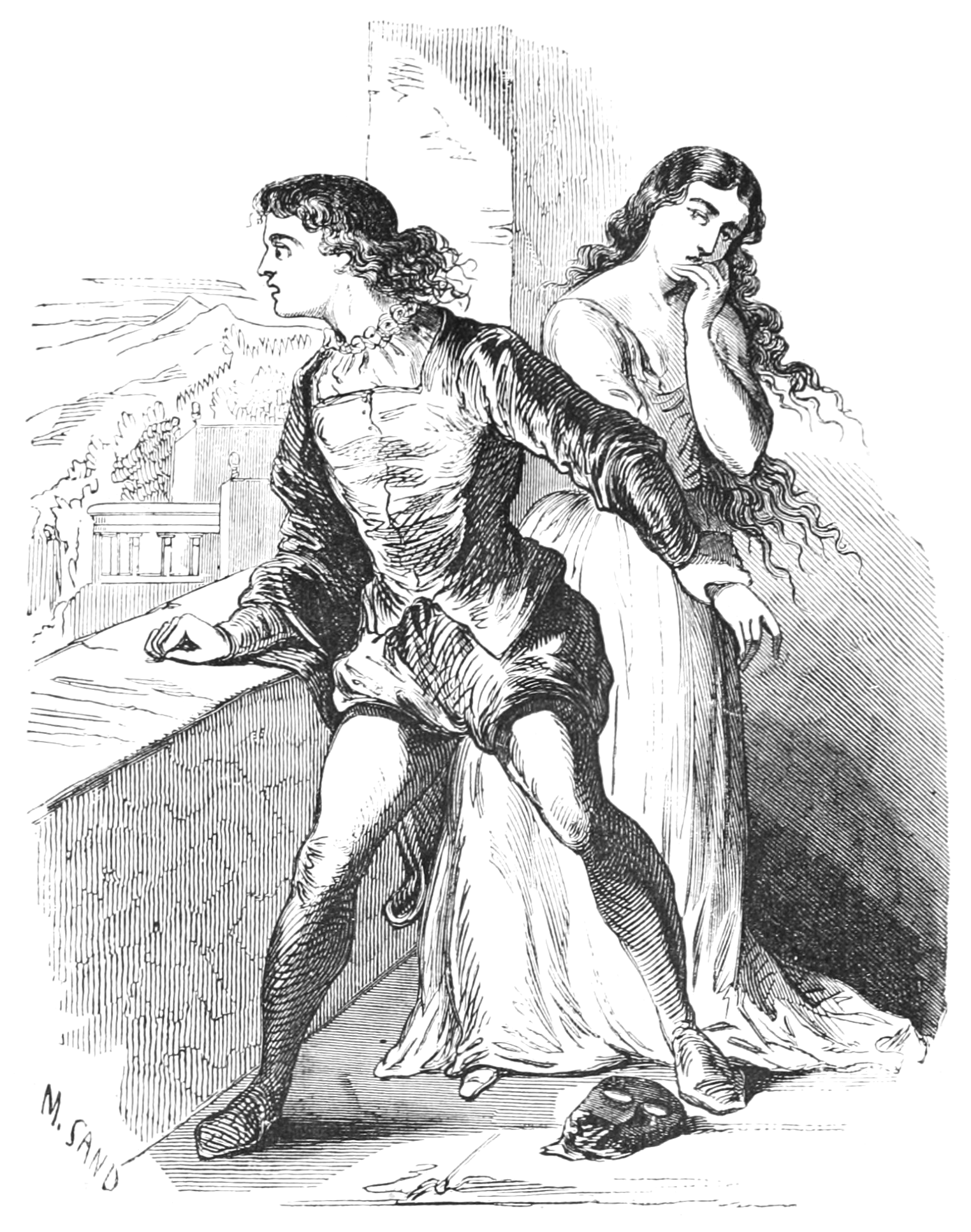 “This really is Lélia!” he cried: an illustration by Maurice Sand for Lélia by his mother George Sand